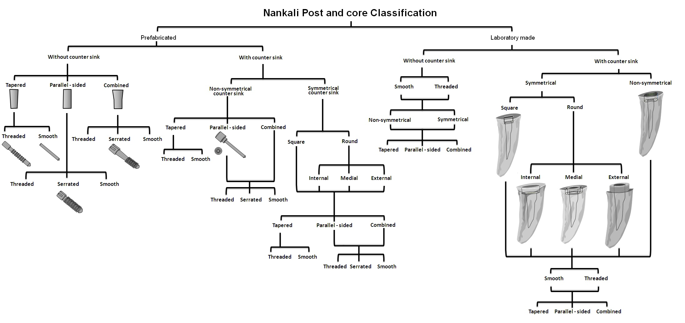 Nankali Post and Core Classification